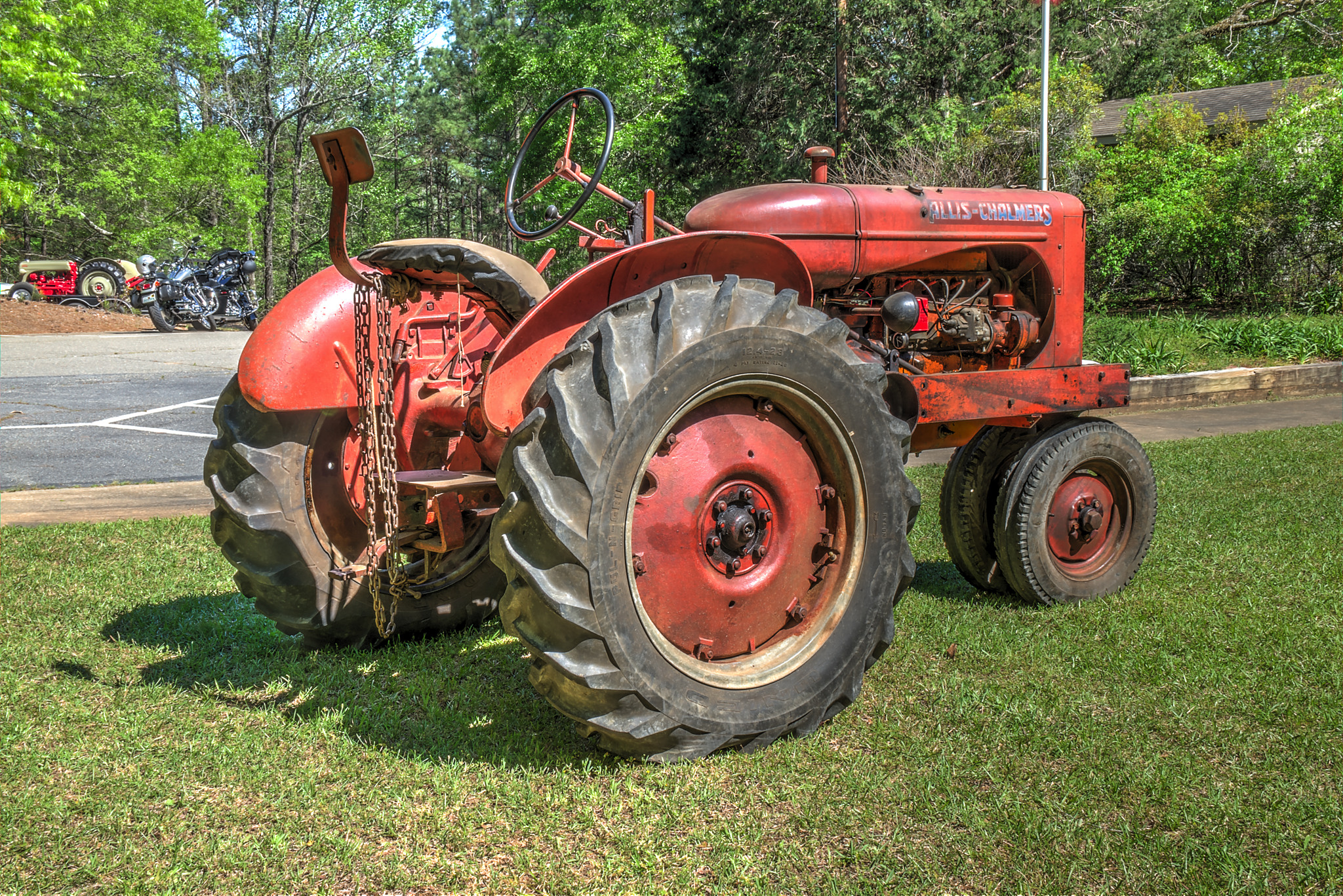 Allis-Chambers Tractor, WC Model (1942)